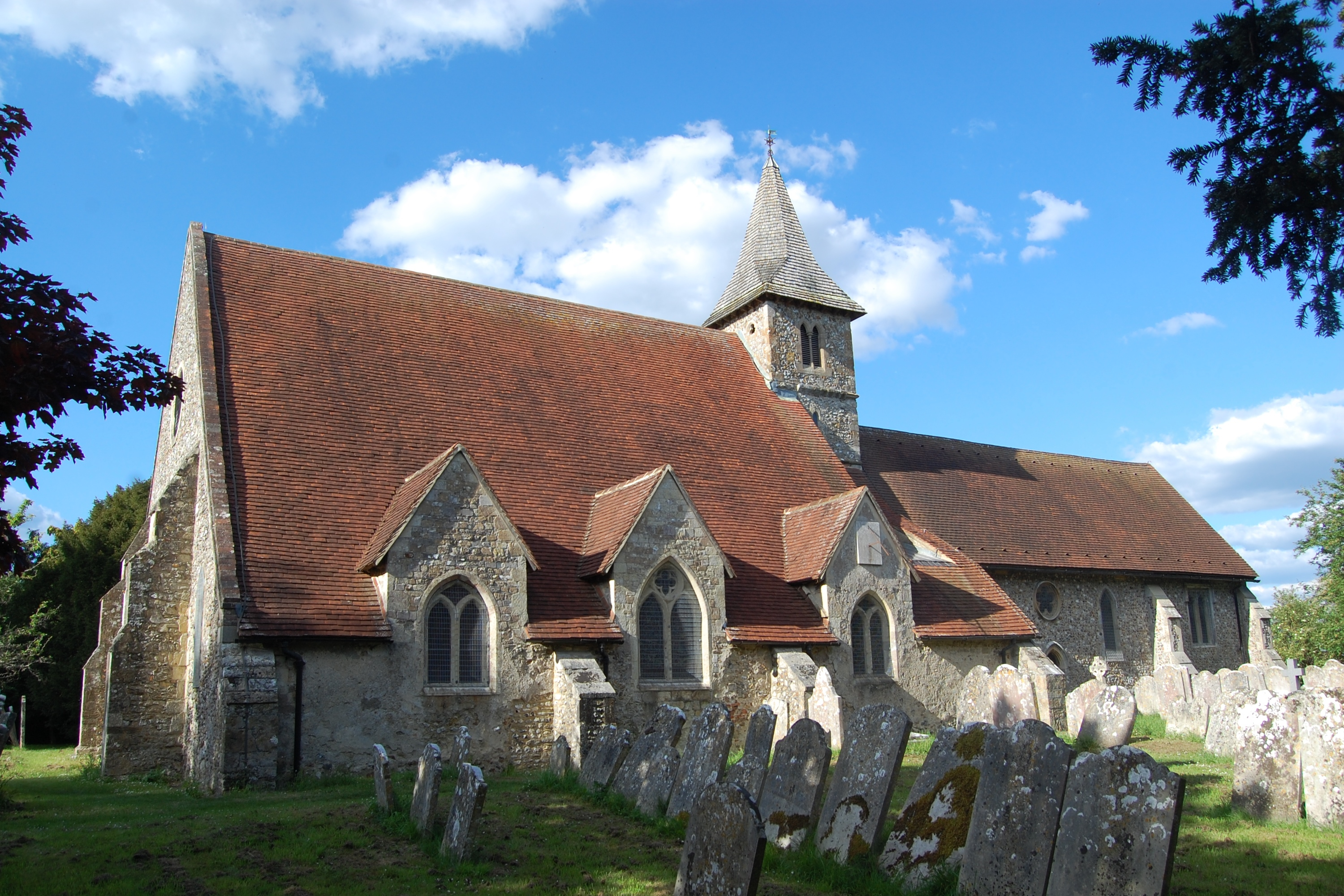 St Thomas a Becket's Church, Church Lane, Warblington, Hampshire, England. The Anglican parish church of Warblington. A Grade I-listed building.